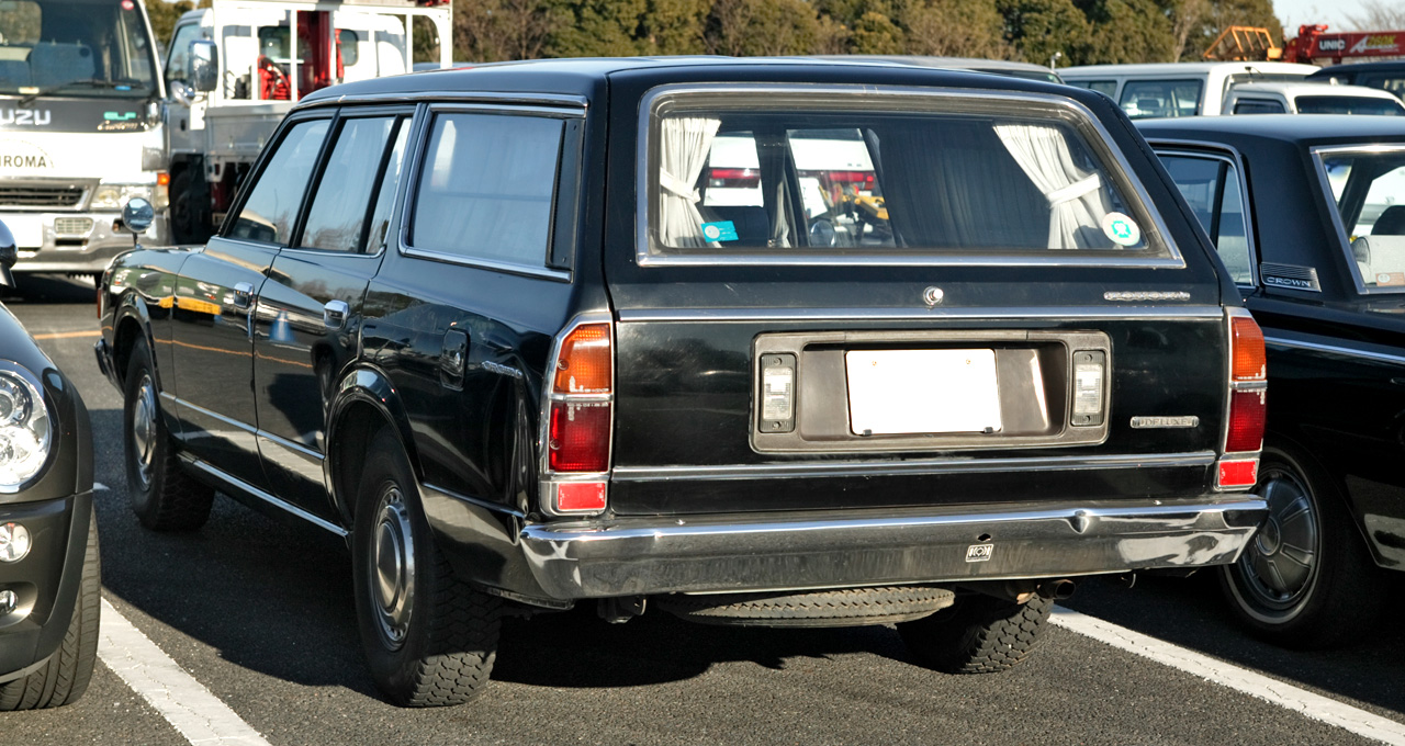 Toyota Crown Van 2000 Deluxe ( MS87V, plain type Hearse] )